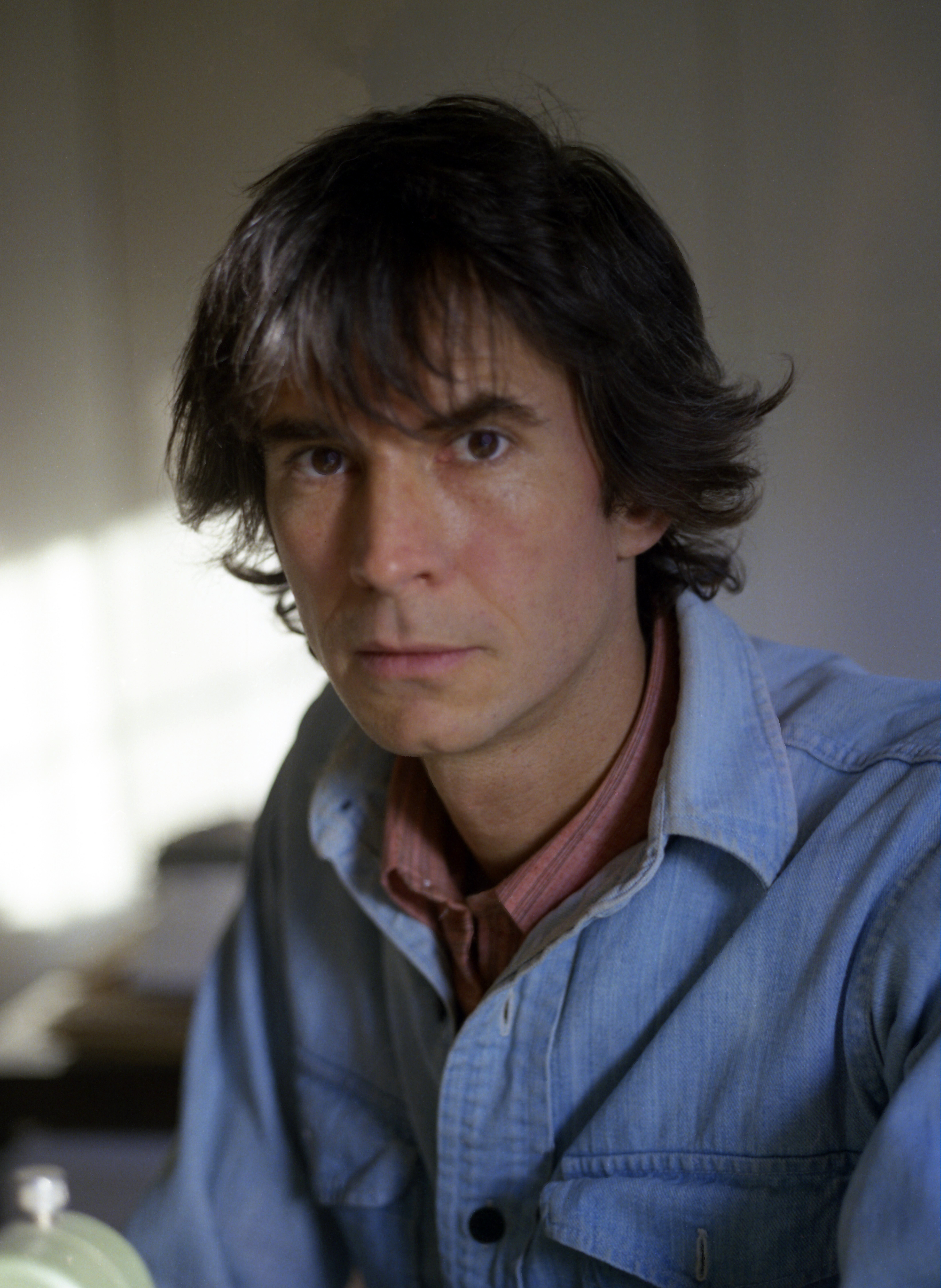 Anthony Perkins in New York